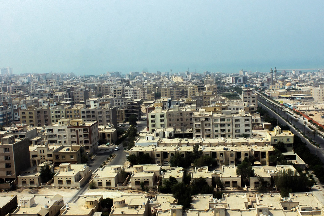 City of Qeshm on Qeshm Island, Iran